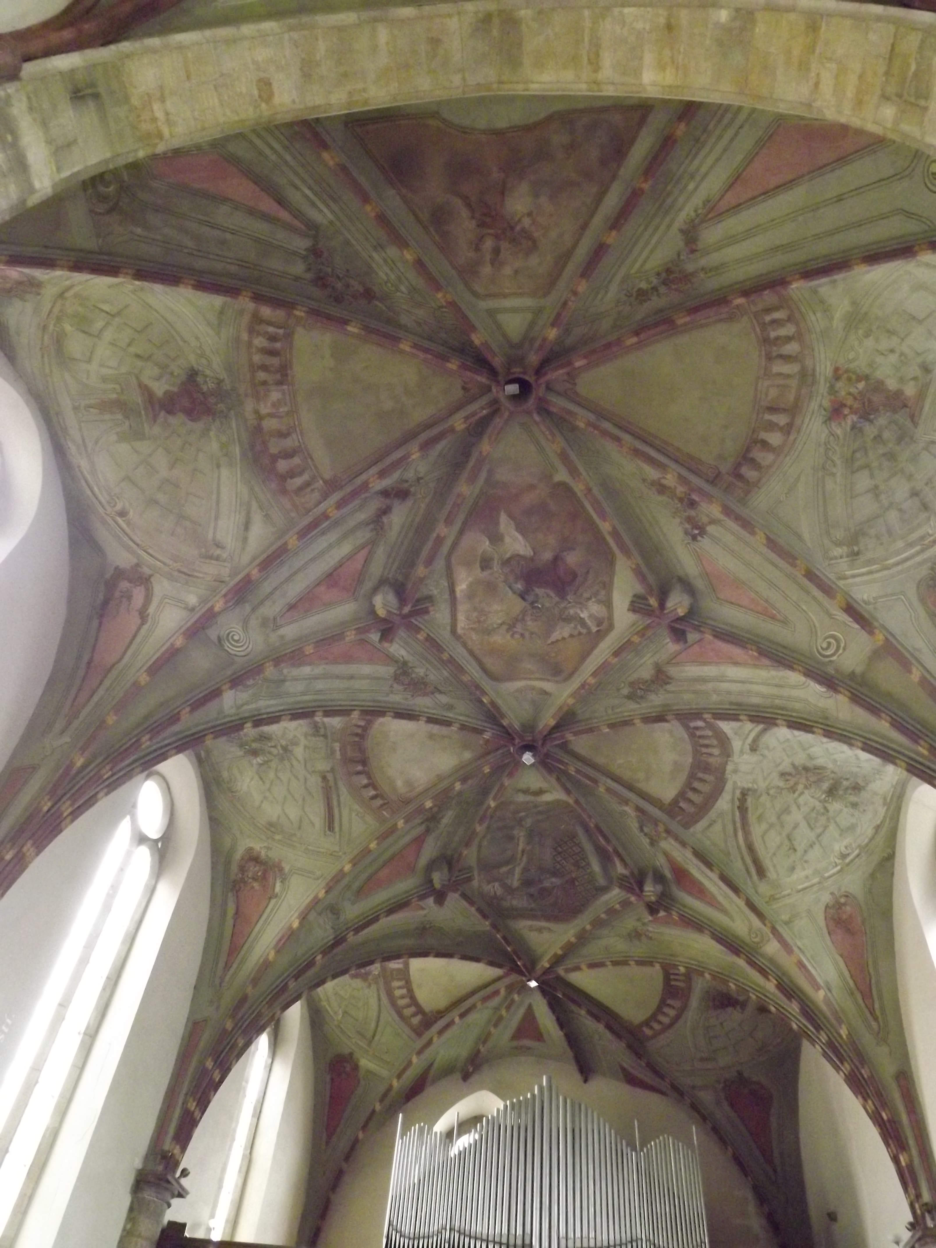 The vault in St. Wenceslas' Church at Zderaz